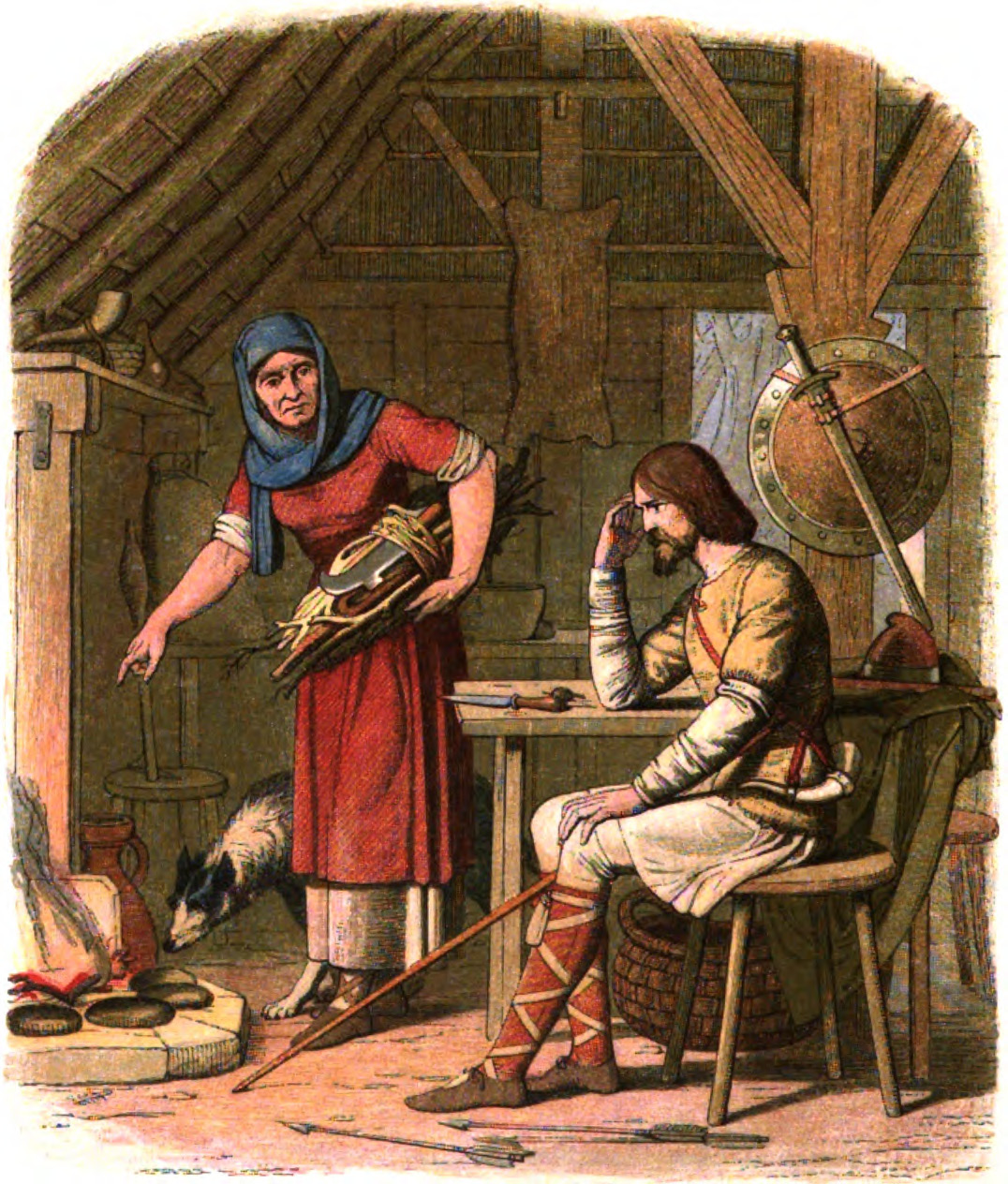 Alfred the Great is scolded by his subject, a neatherd's wife, for not turning the breads but readily eating them when they are baked in her cottage.